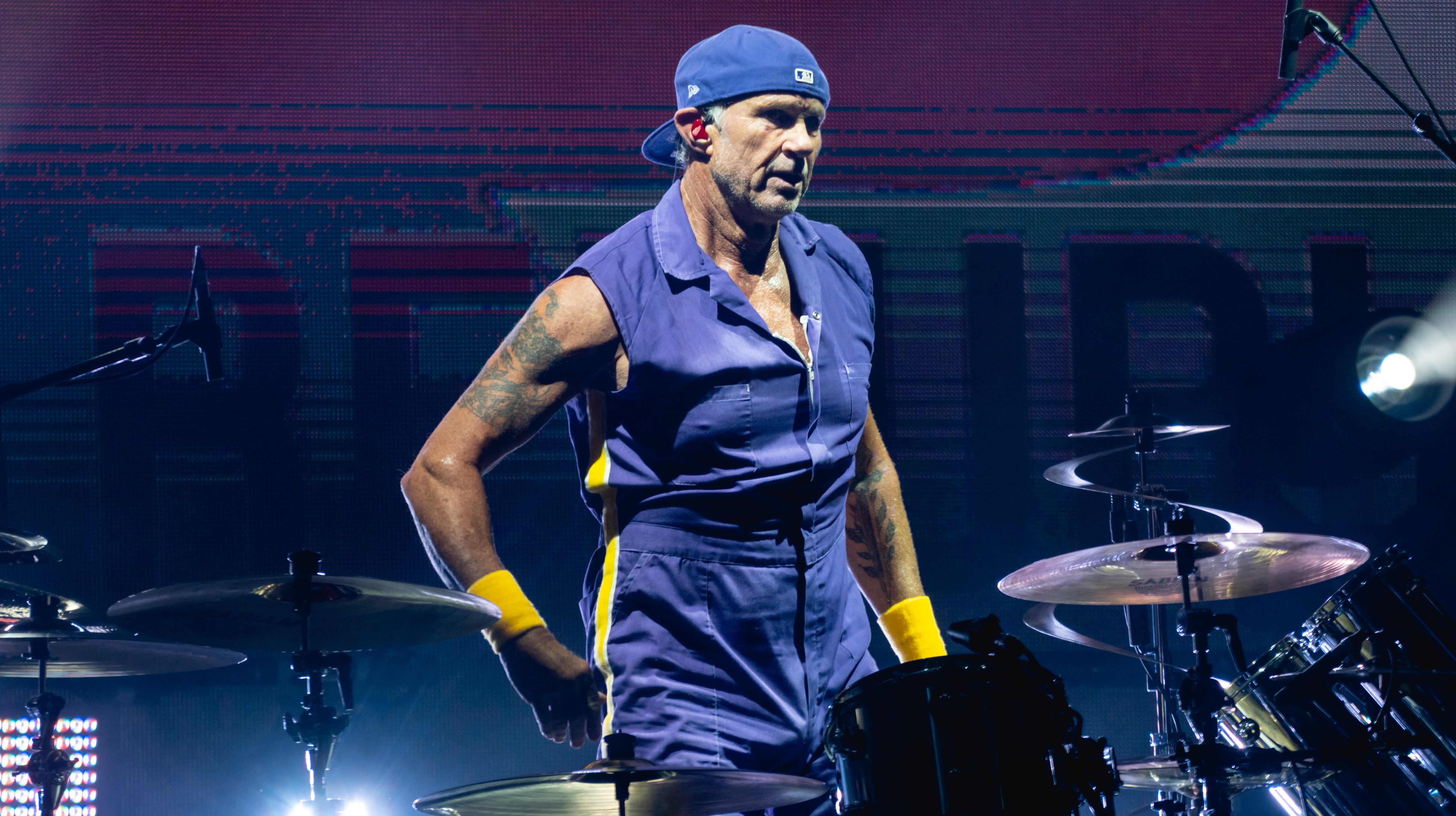 American rock band Red Hot Chili Peppers performing at the Ohana Festival 2019 in Doheny Beach, California, on September 29, 2019